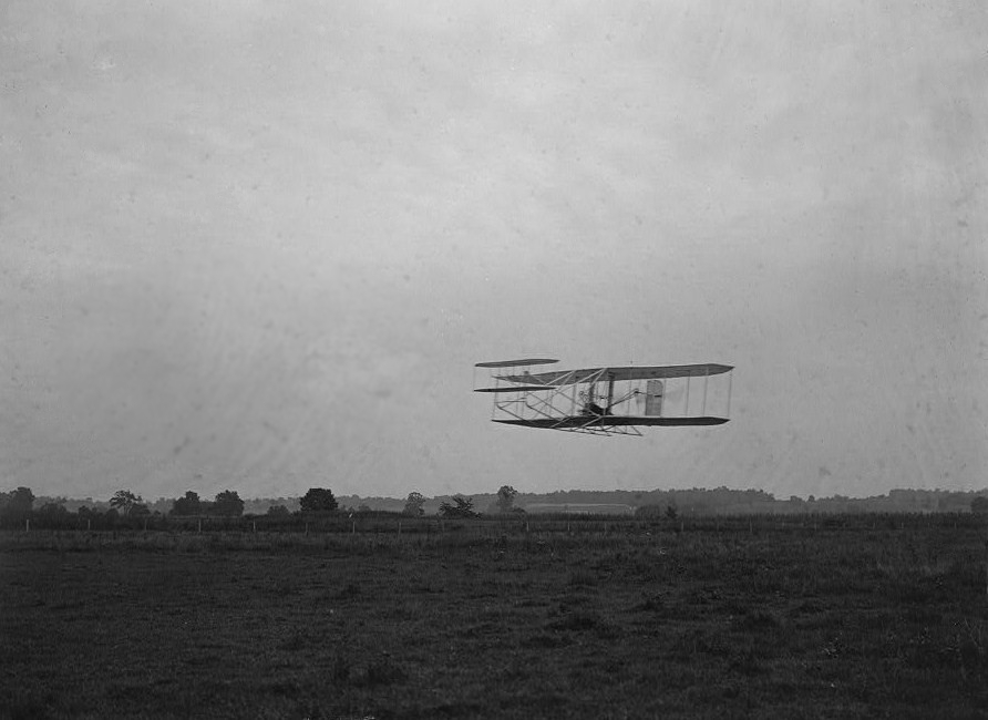 Front view of the 1905 Wright Flyer III with Orville Wright at the controls, making two complete circles of the field at Huffman Prairie in 2 minutes and 45 seconds; Dayton, Ohio, September 7, 1905.